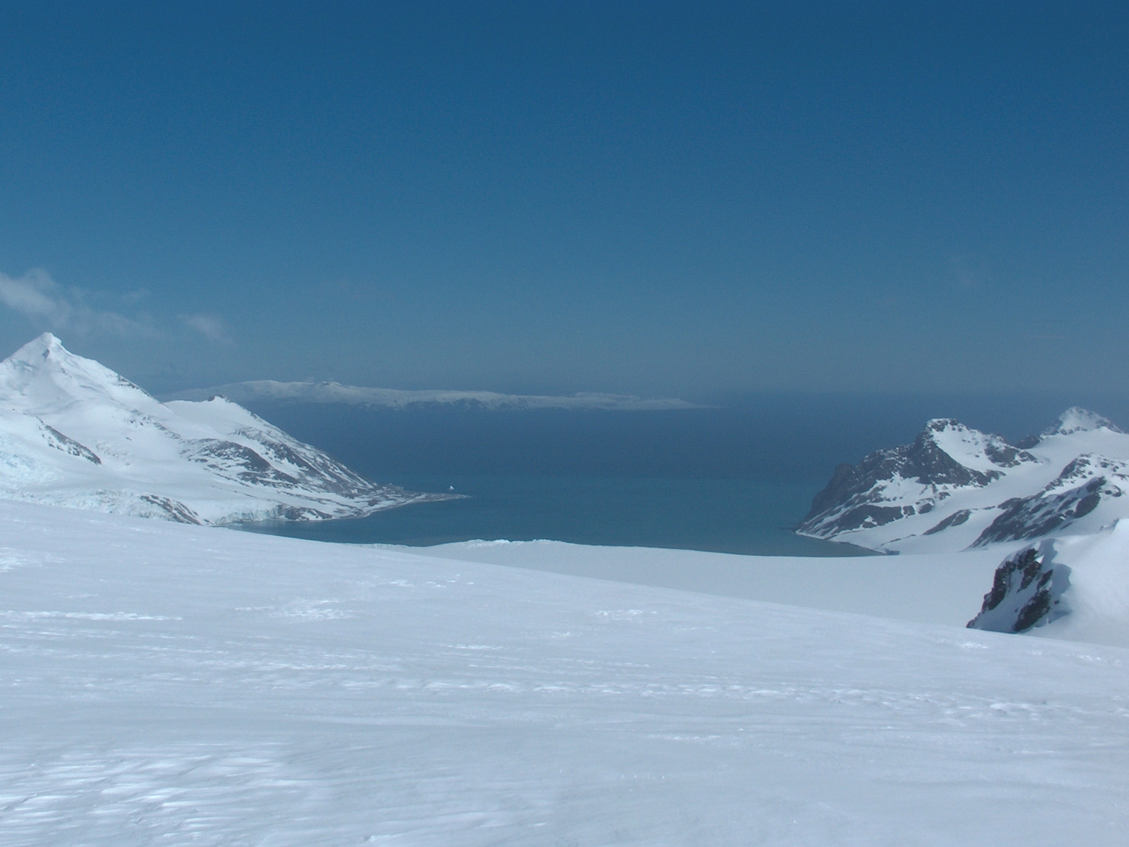 False Bay from Orpheus Gate area on Livingston Island, Antarctica